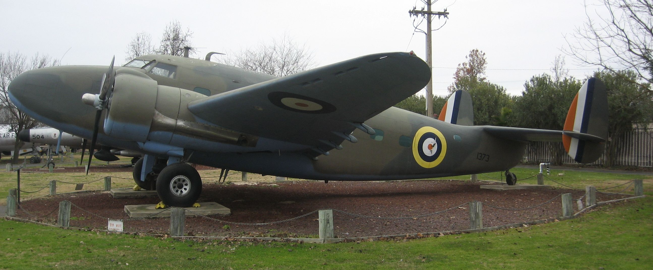 A Lockheed C-56 Lodestar on display at the Castle Air Museum in Atwater, California.